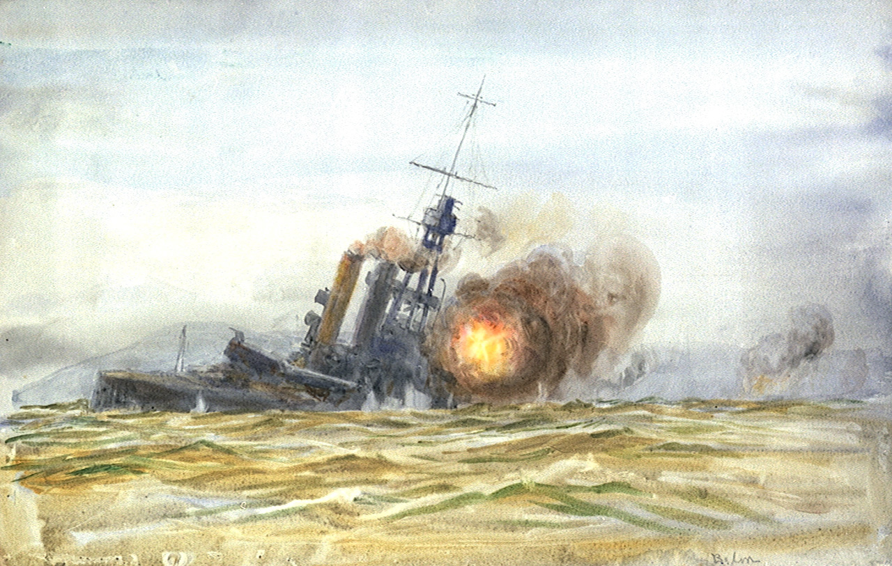 Study of the former German battleship 'Baden', listing and under fire as a gunnery target in 1921 Inscribed 'Baden' by the artist, lower right. This is the former German battleship 'Baden', launched on 30 October 1915 and completed in October 1916. Following th Armistice in November 1918, she was interned at Scapa Flow on 14 December, being the last German ship to arrive there. Her crew attempted to scuttle her, with the rest of the interned fleet, on 21 June 1919 but the British intervened and managed to tow her to shallow water and beach her, as the only German capital ship saved that way. After being refloated in July 1919 she was towed to Portsmouth for full examination and then designated to be destroyed as a gunnery target. On 2 February 1921 she was sunk in shallow water by 17 hits from the monitor 'Terror' (1916) but again refloated and, on 10 August, badly damaged by 14 hits from the monitor 'Erebus' (1916) off the Isle of Wight. She was then towed away and scuttled in deep water off the Casquet Rocks in the Channel Islands on 16 August 1921. This shows her from broad on the starboard quarter, with a list to starboard and a shell exploding towards the bow during one of the target days. The smoke coming from her second funnel is probably artistic licence, since her boilers were not lit. The ship implied in the right distance is presumably the monitor firing at her. Note that all Wyllie's studies of her in her target days show her main armament trained to starboard, which no doubt contributed to the list shown in them. See also PAE2736, PAE3133, PAF1873, PAF1876 and PAF1877.